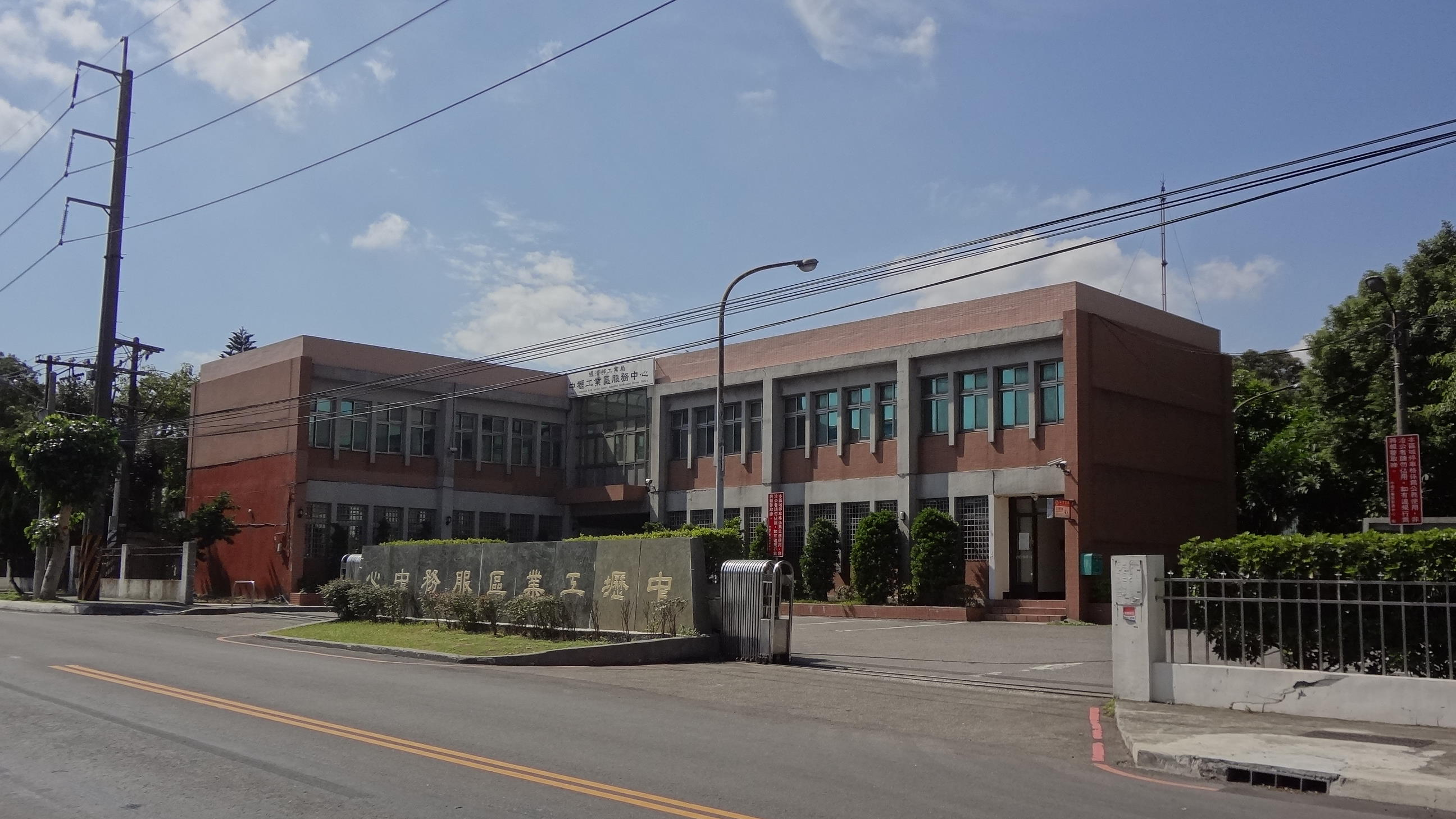 Jhongli Industrial Park Service Center, Industrial Development Bureau, MOEA.